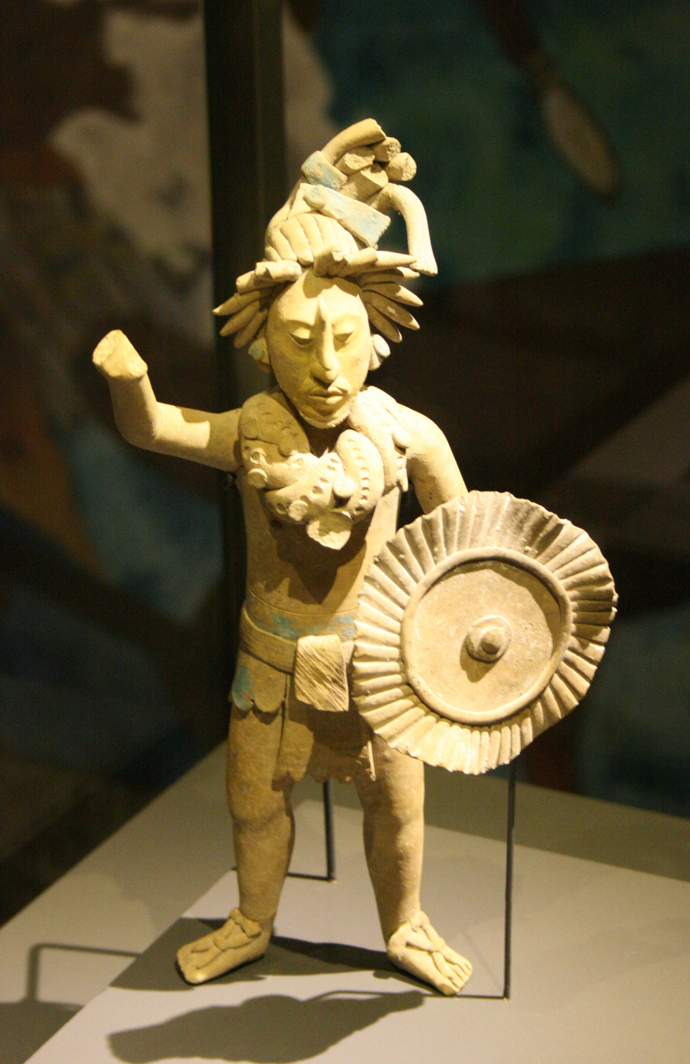 Jaina island figurine of a warrior. Classic Maya, From the Musées Royaux d'Art et d'Histoire, Brussels (Belgium)